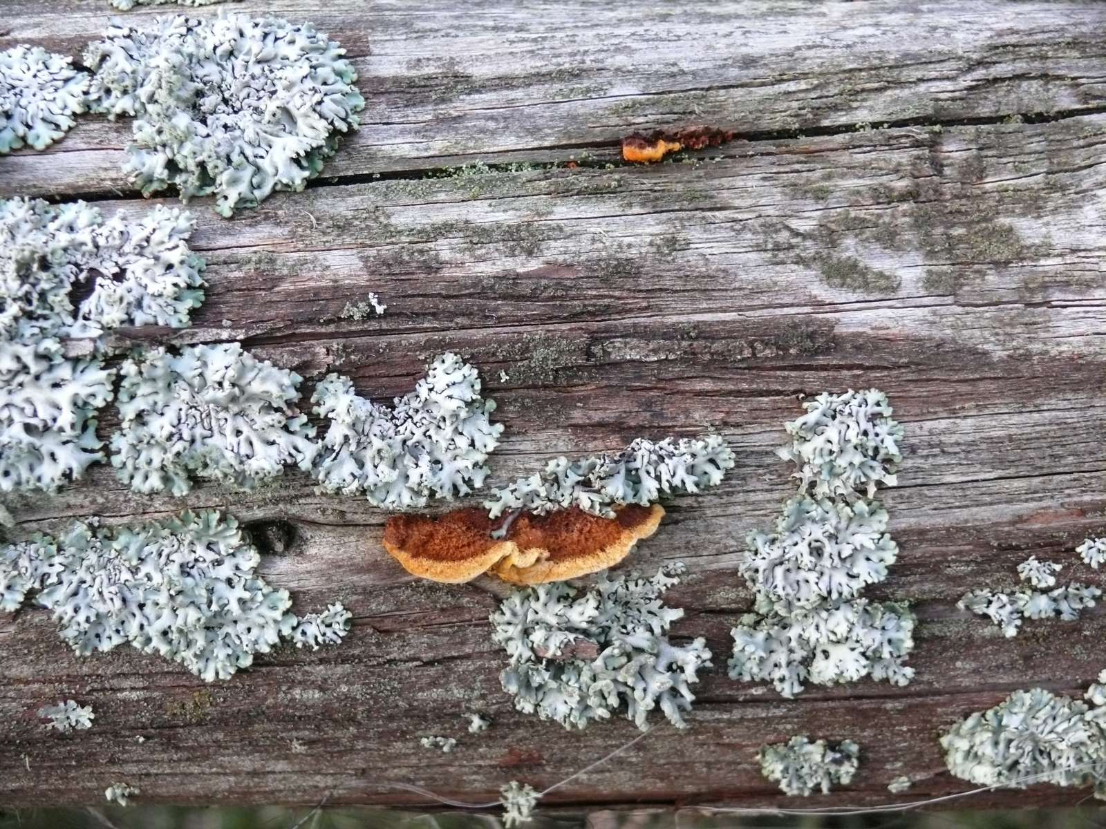 lichen and fungus on wood, the lichen is Hypogymnia physodes